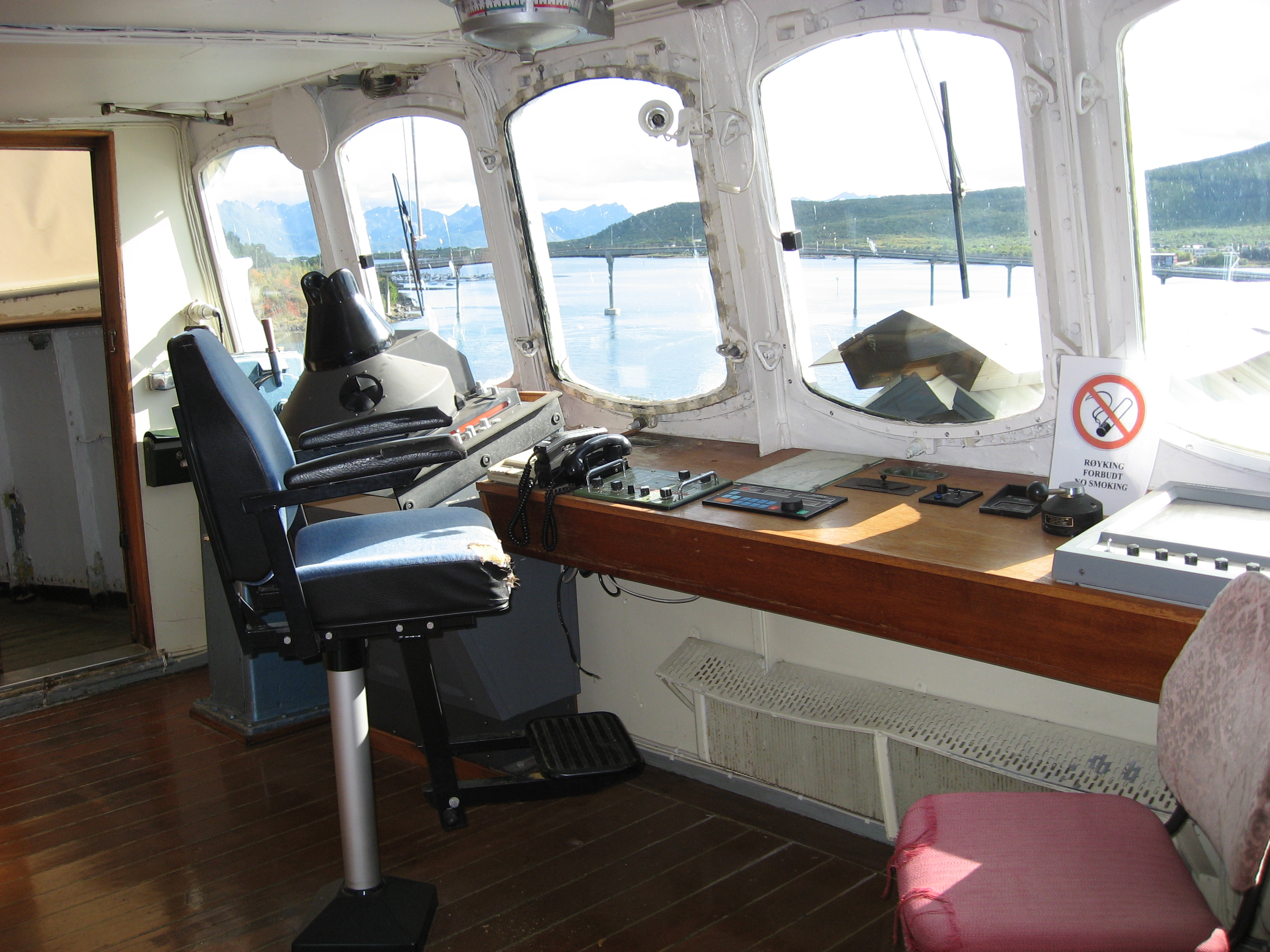 The bridge on the former hurtigrute-ship (coastal express) MS Finnmarken. Now a museum-ship on dry land.